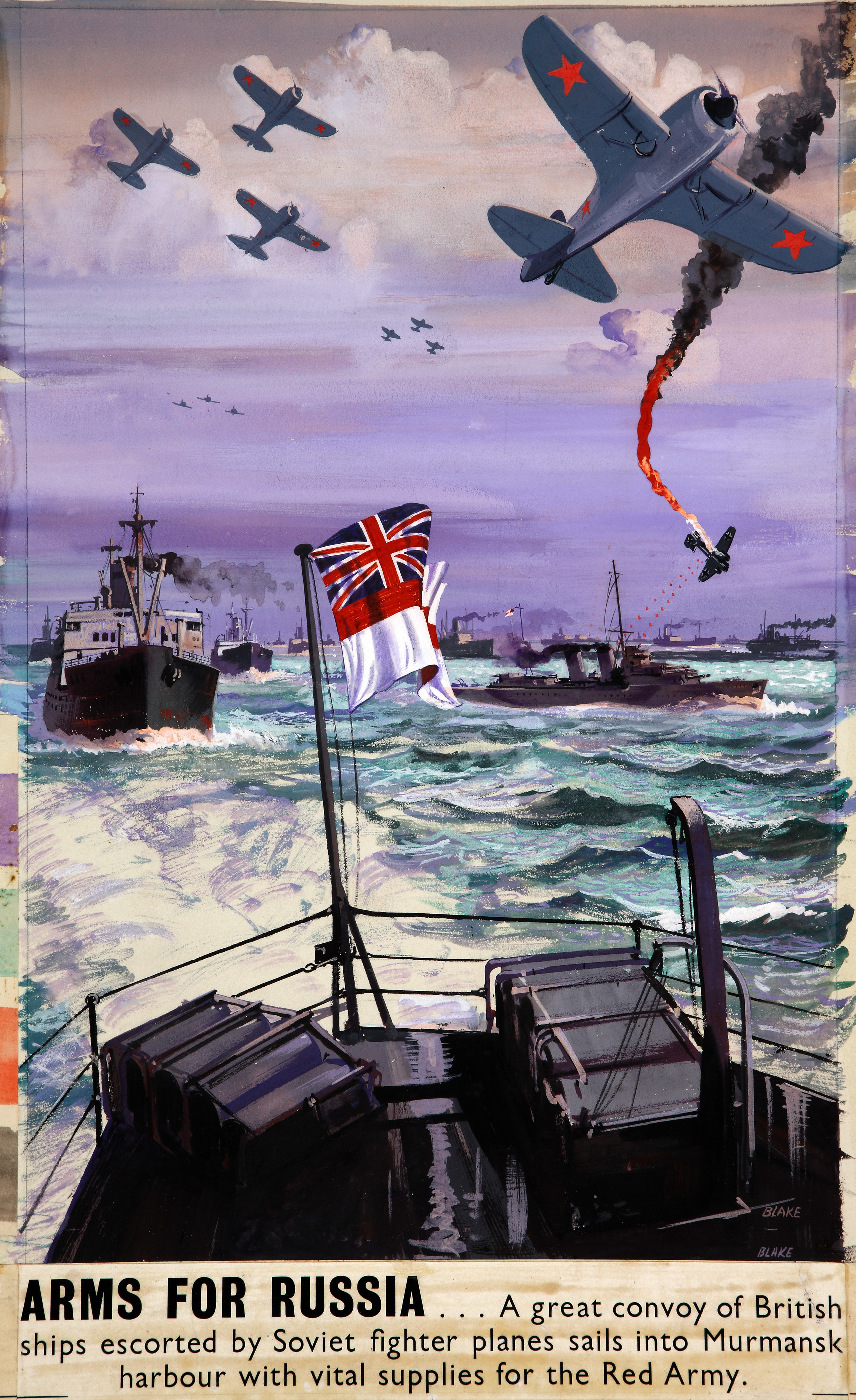 "Arms for Russia - a great convoy of British ships escorted by Soviet fighters sails into Murmansk harbour with vital supplies for the Red Army."